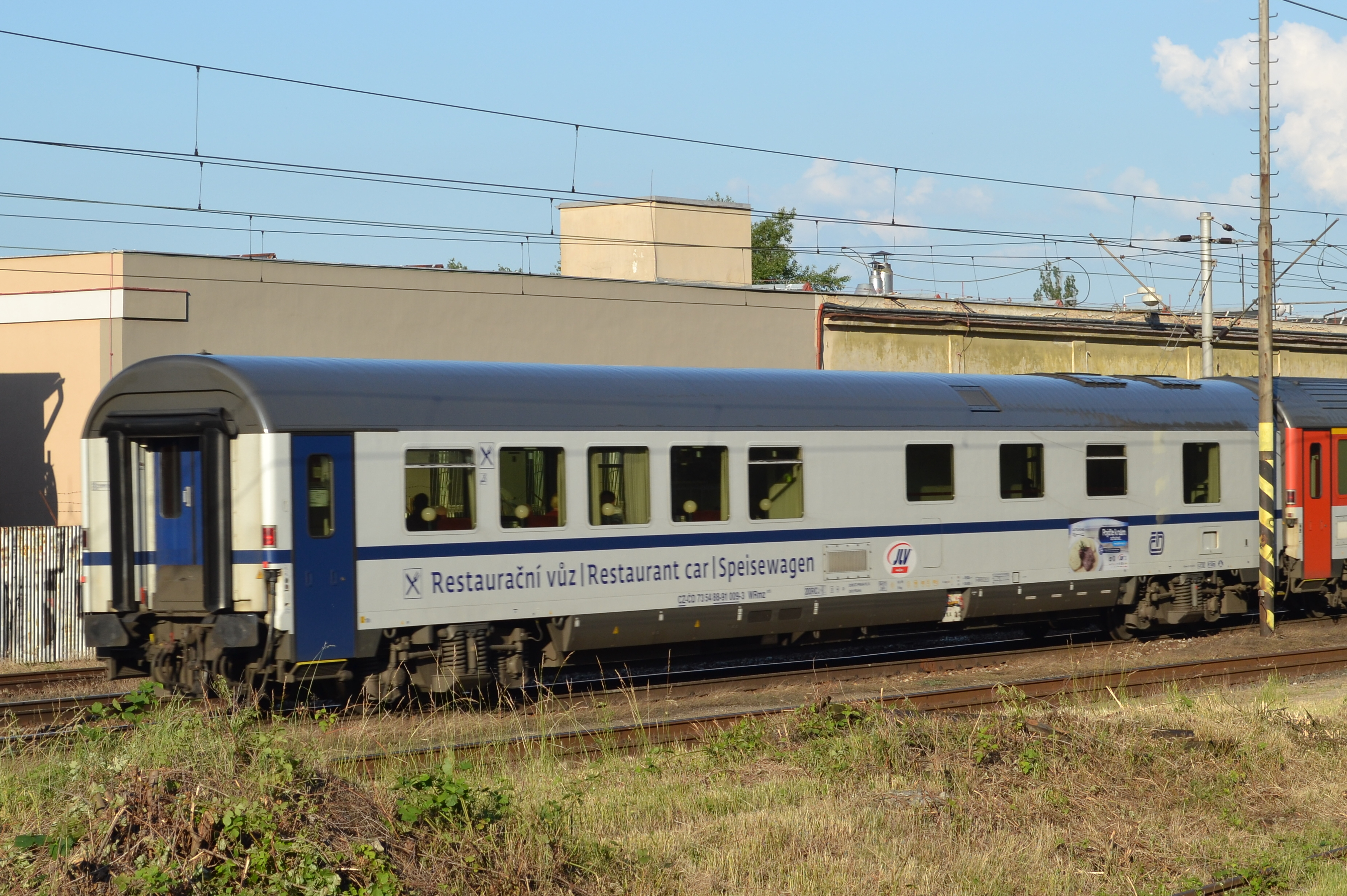 ČD coach WRmz, EuroCity train, railway line 091, Prague, Czech Republic.